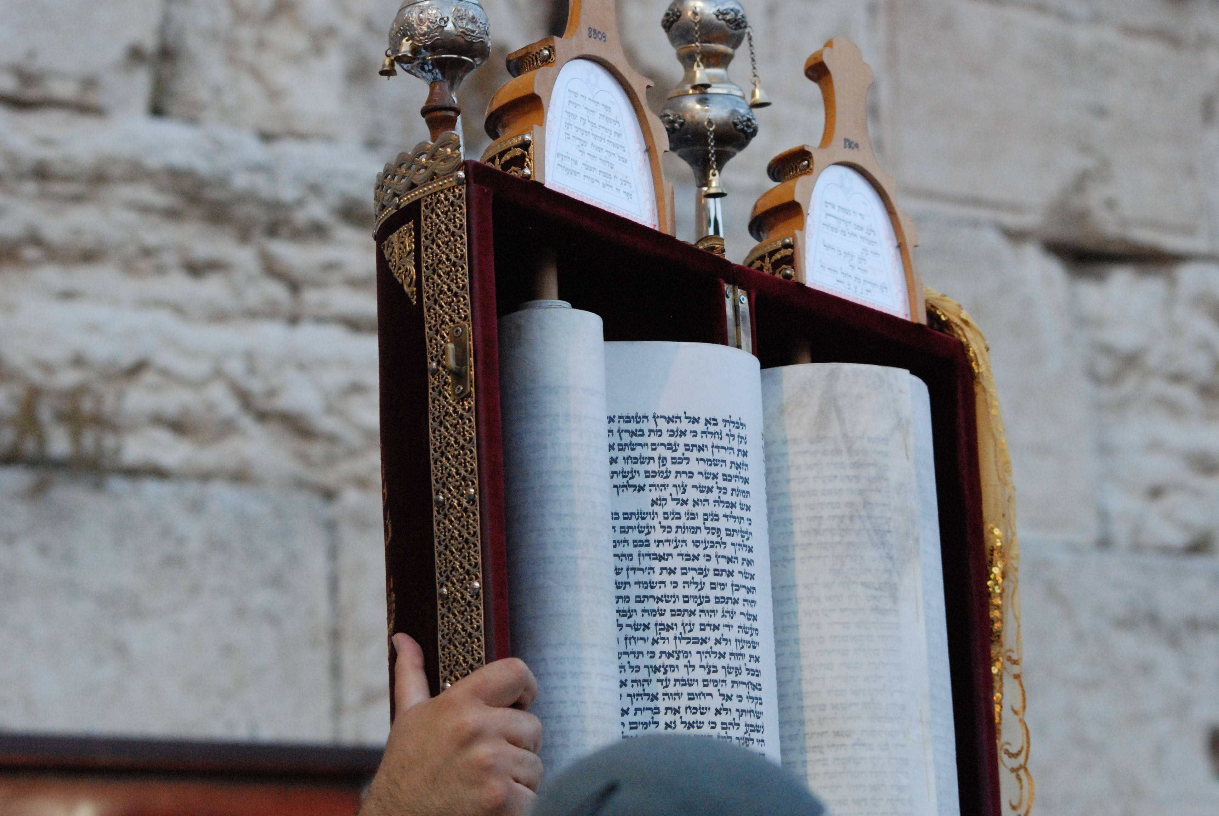 Tisha B'Av at the Western Wall